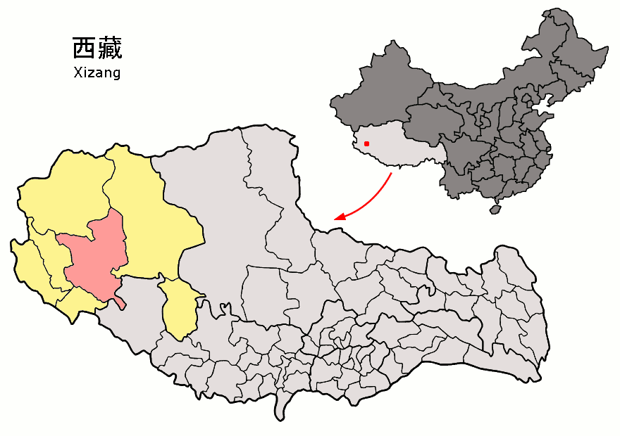 Location of Gê'gyai County (pink) and Ngari Prefecture (yellow) within Tibet (Xizang) autonomous region of China